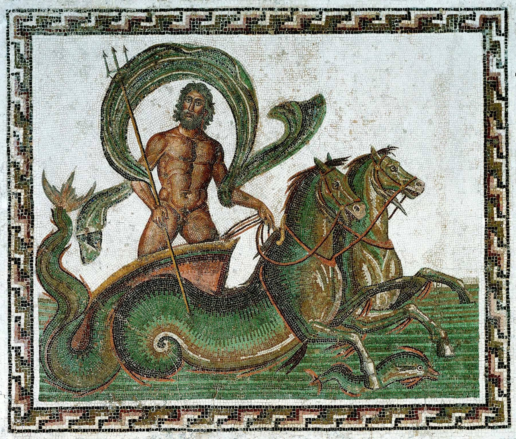 Triumph of Neptune standing on a chariot pulled by two sea horses (Latin: hippocampes). Mosaïque d'Hadrumète (Sousse) the mid-third century AD. Musée archéologique de Sousse.